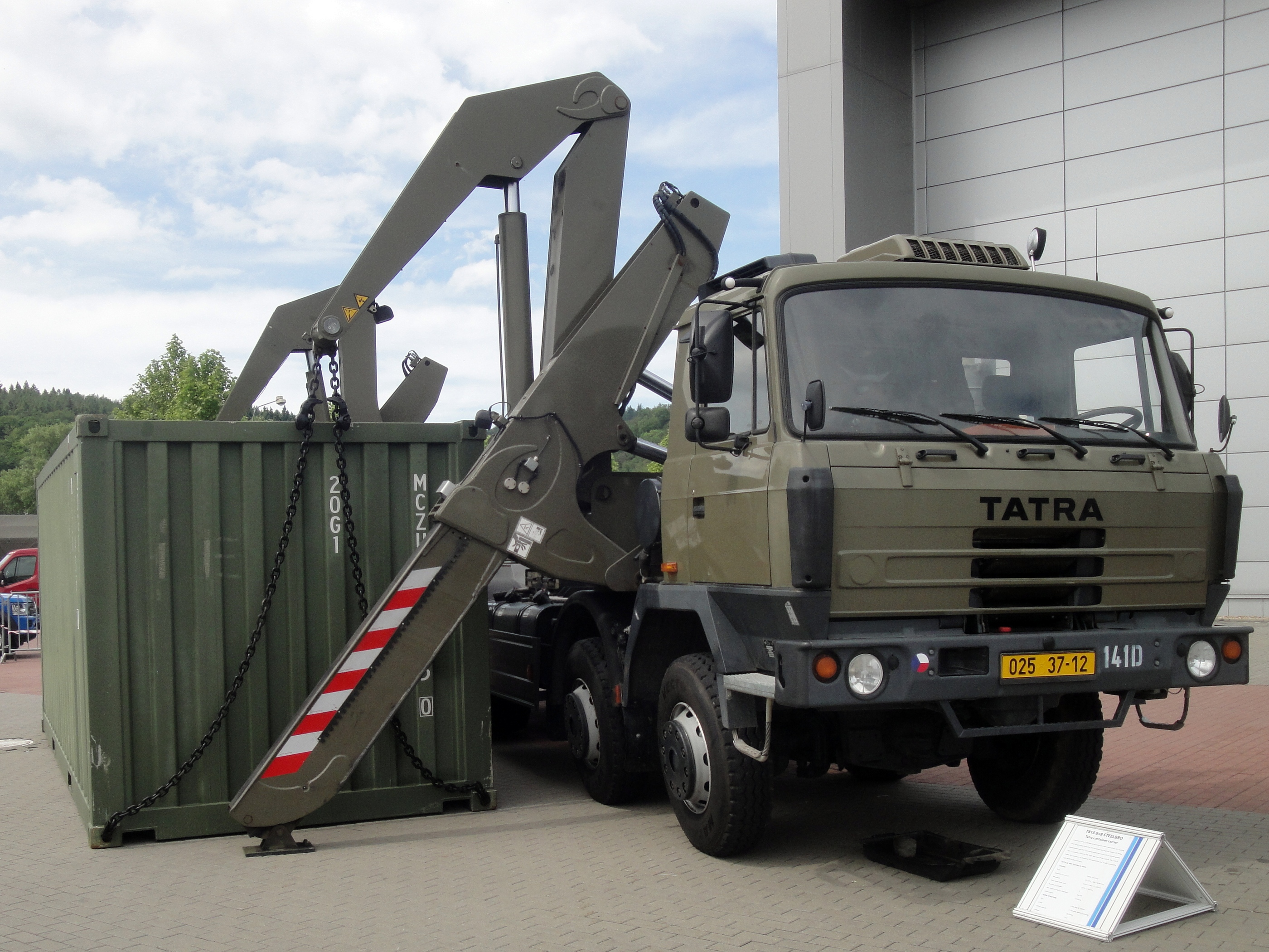 Tatra T815 8x8 Steelbro Container Carrier, IDET/PYROS/ISET 2019, Brno